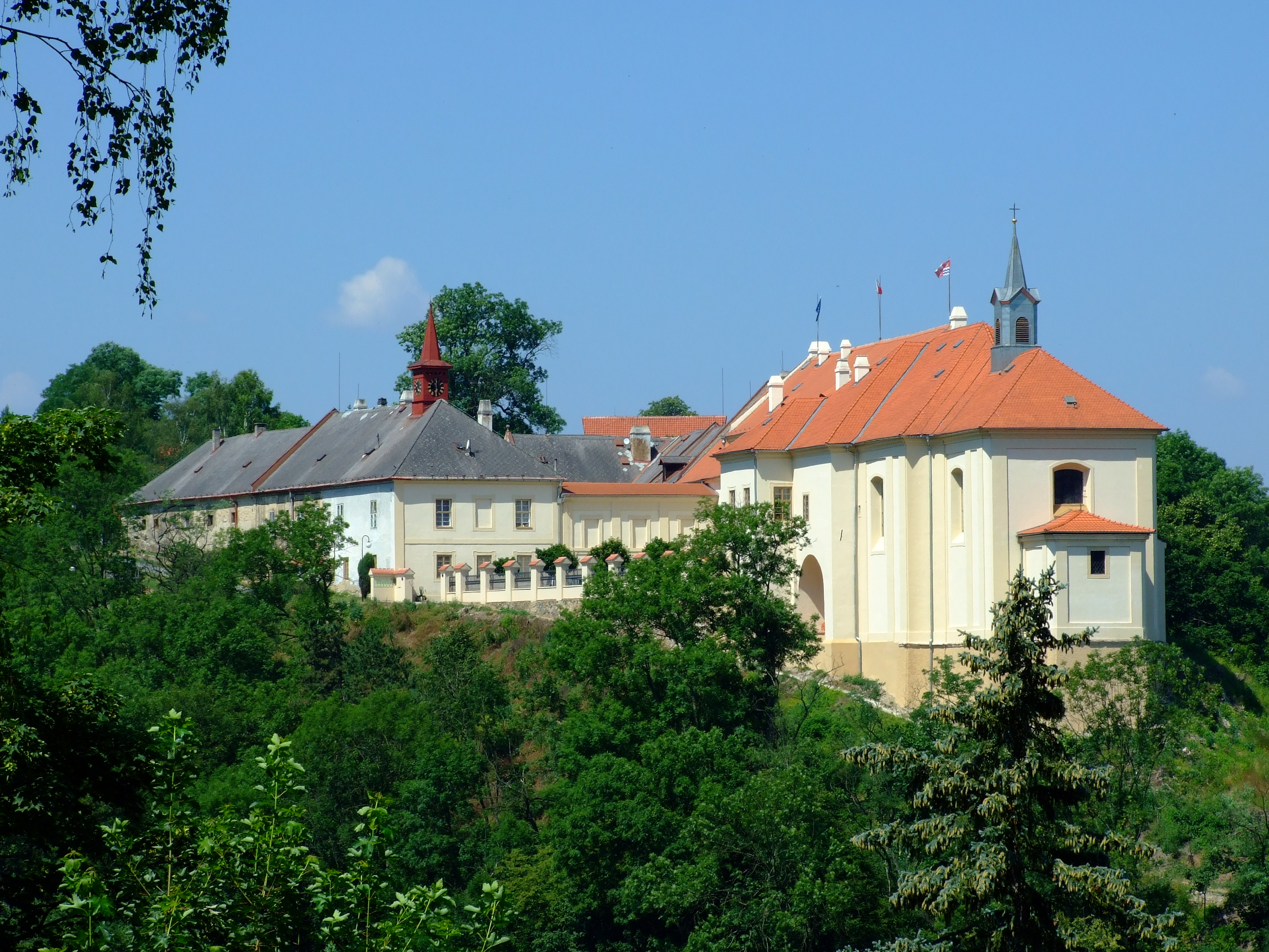 Nižbor castle, Central Bohemian region, CZ